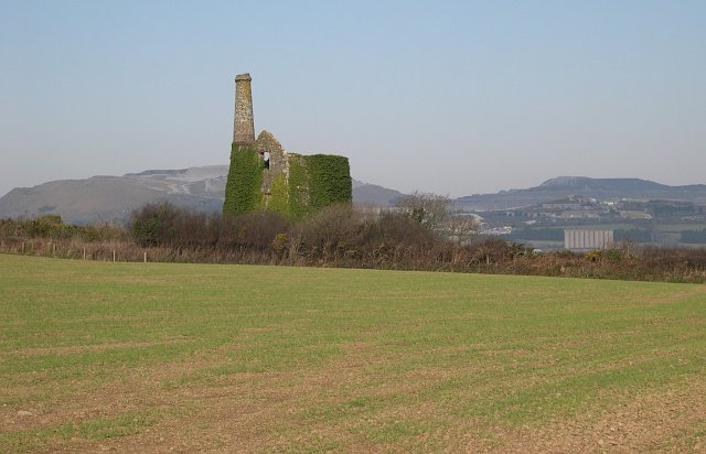 Old Mine Engine House. On the high ground between Sticker and Polgooth. The hills and waste tips of the St Austell granite can be seen in the background.